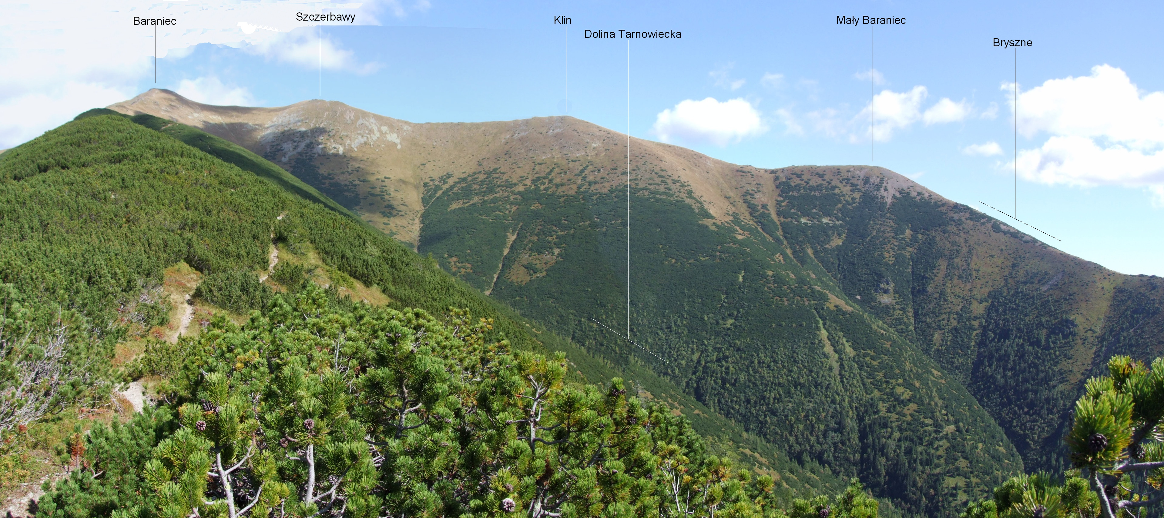 Baranec (West Tatra Mountains)